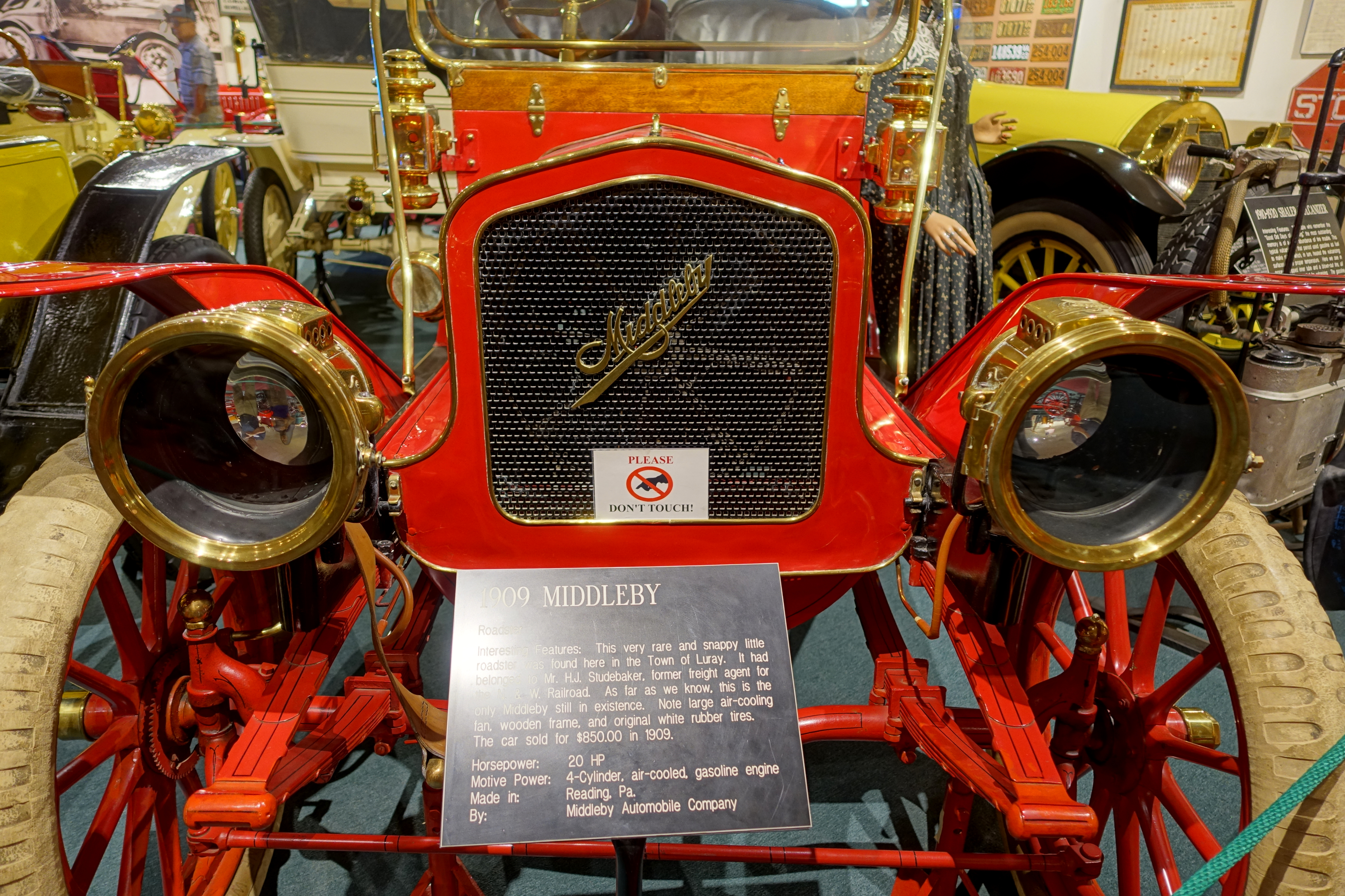 Exhibit in the in the Luray Caverns Car and Carriage Museum, Lurary, Virginia, USA.